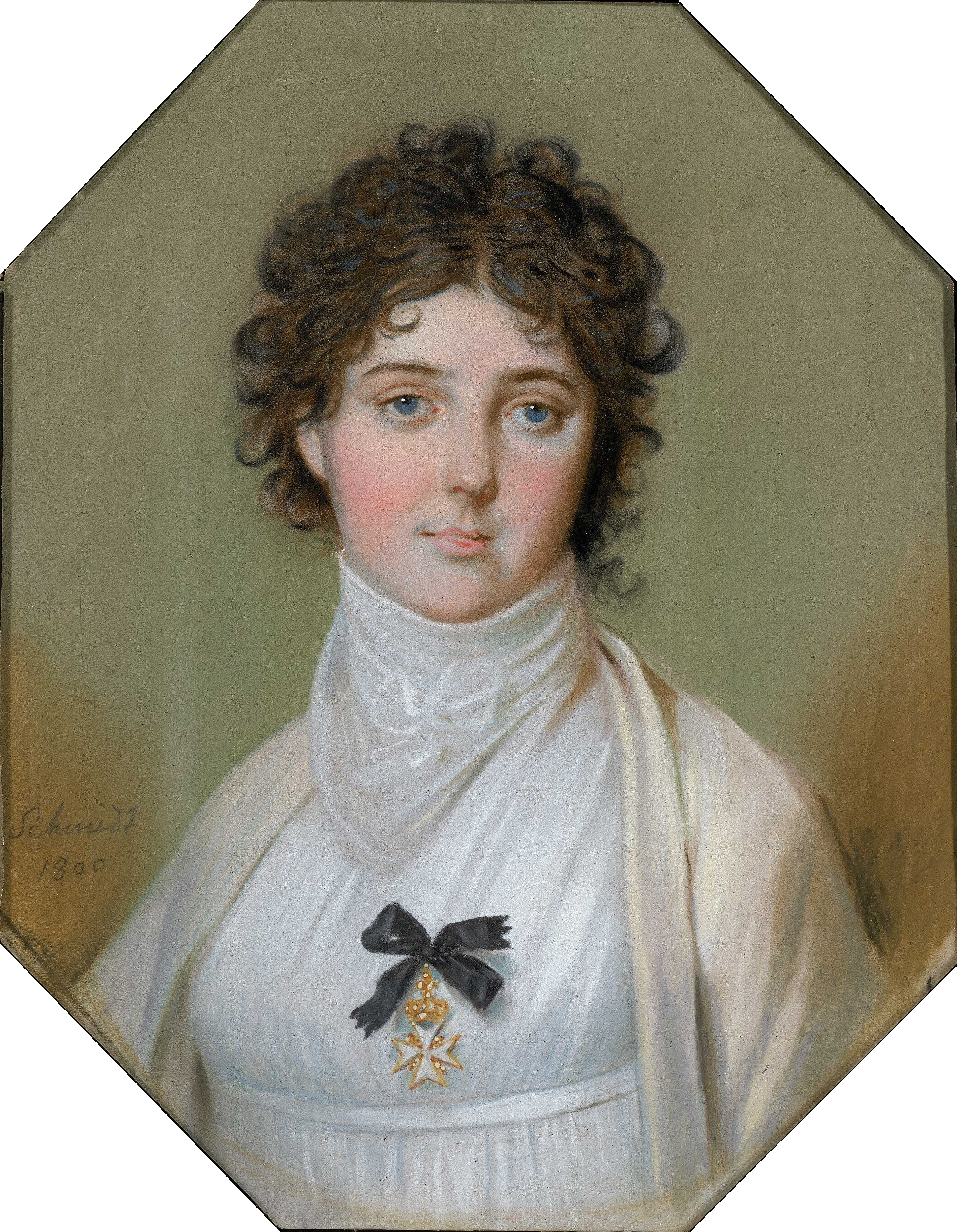 Emma, Lady Hamilton, wearing Maltese Cross award. Said to be Nelson's favorite portrait of her (see Emma Hamilton by Norah Lofts, page 81 ISBN 0-698-10912-0).